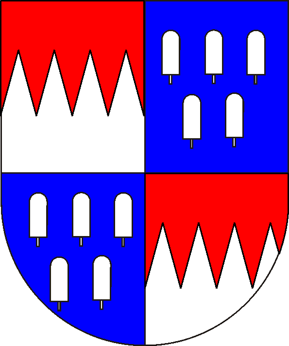 coat of arms